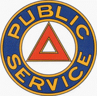 Public Service Logo, predecessor of PSEG. See the history at and